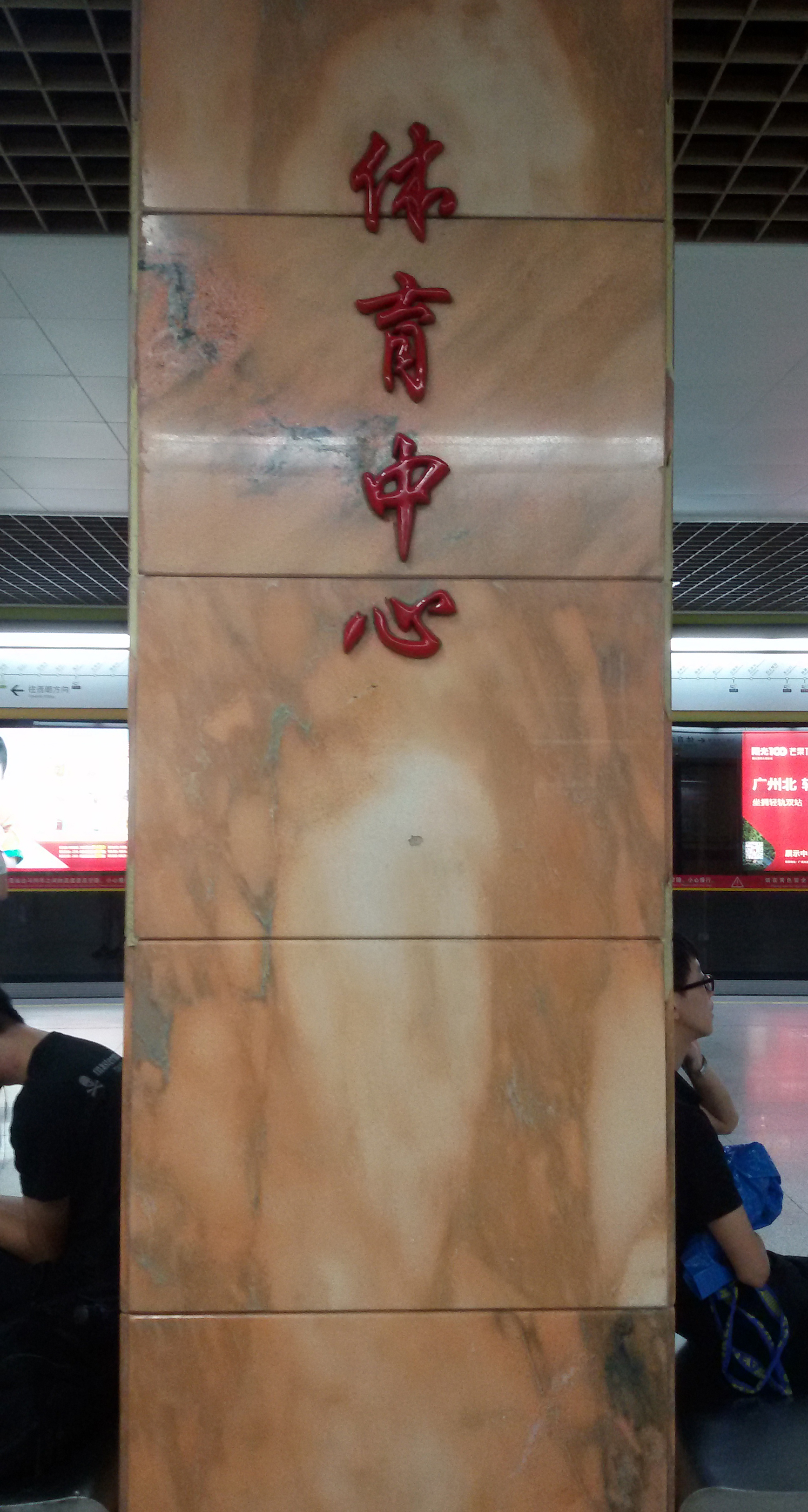 WORD on PILLAR for Tianhe Sports Center Station in Guangzhou Metro.